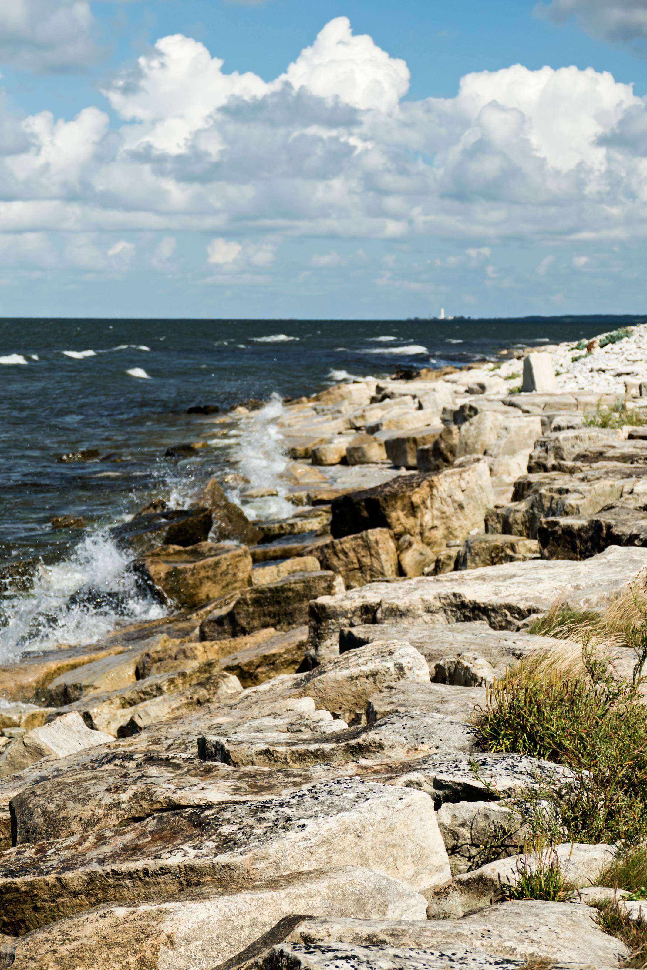 Elda cliff on Atla peninsula, part of Vilsandi National Park